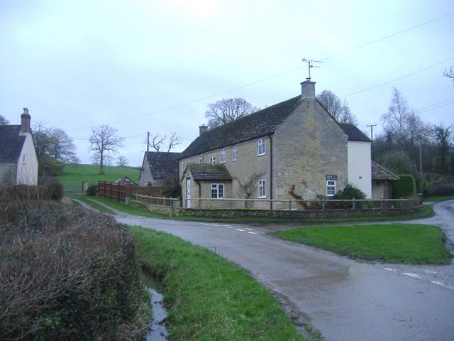 Briar cottage, Rodbourne Bottom At the turn-off for Cleeve House.